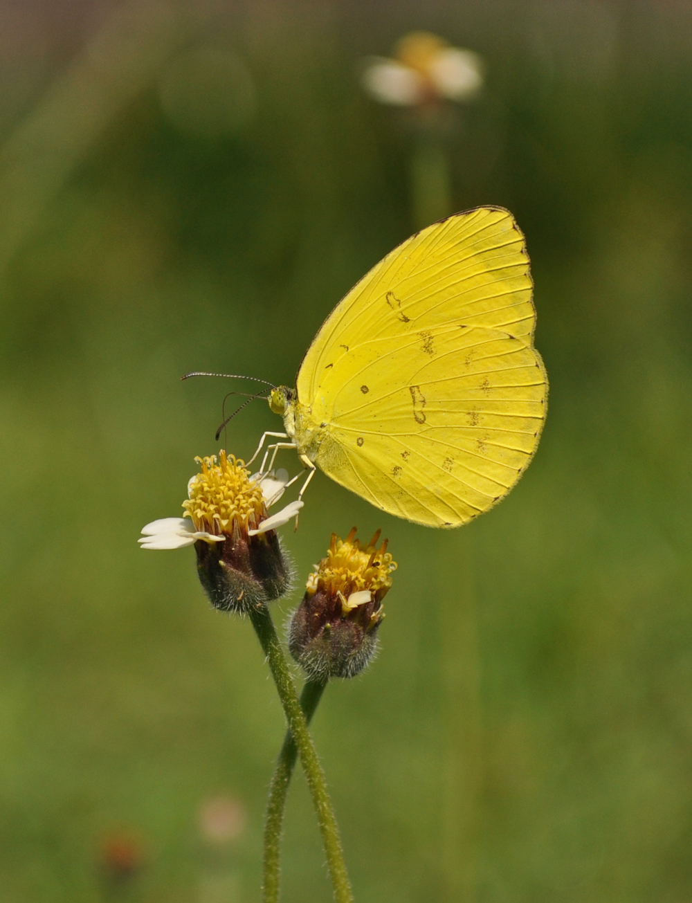 Tridax procumbens inflorescence, visited by Eurema blanda. Darmaga, Bogor, West Java.